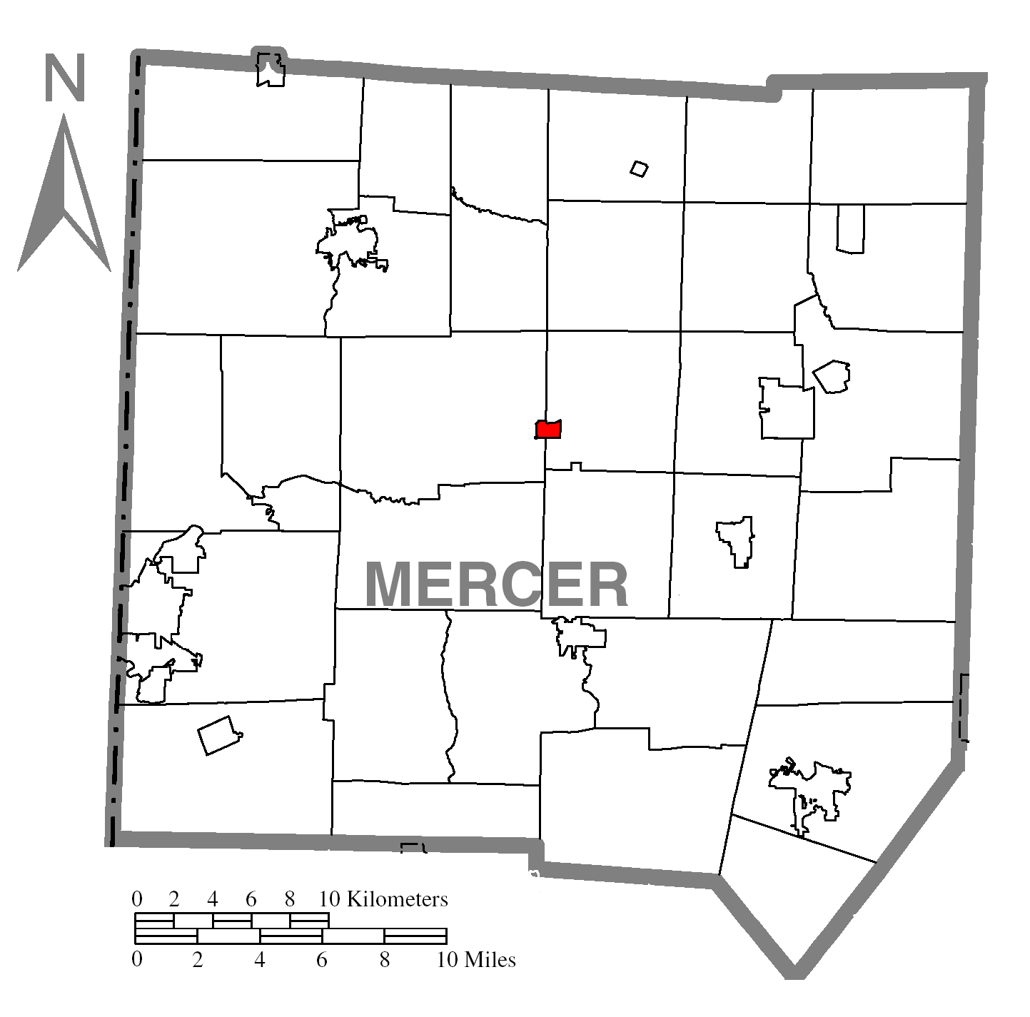 Map of Mercer County higlighting Fredonia.